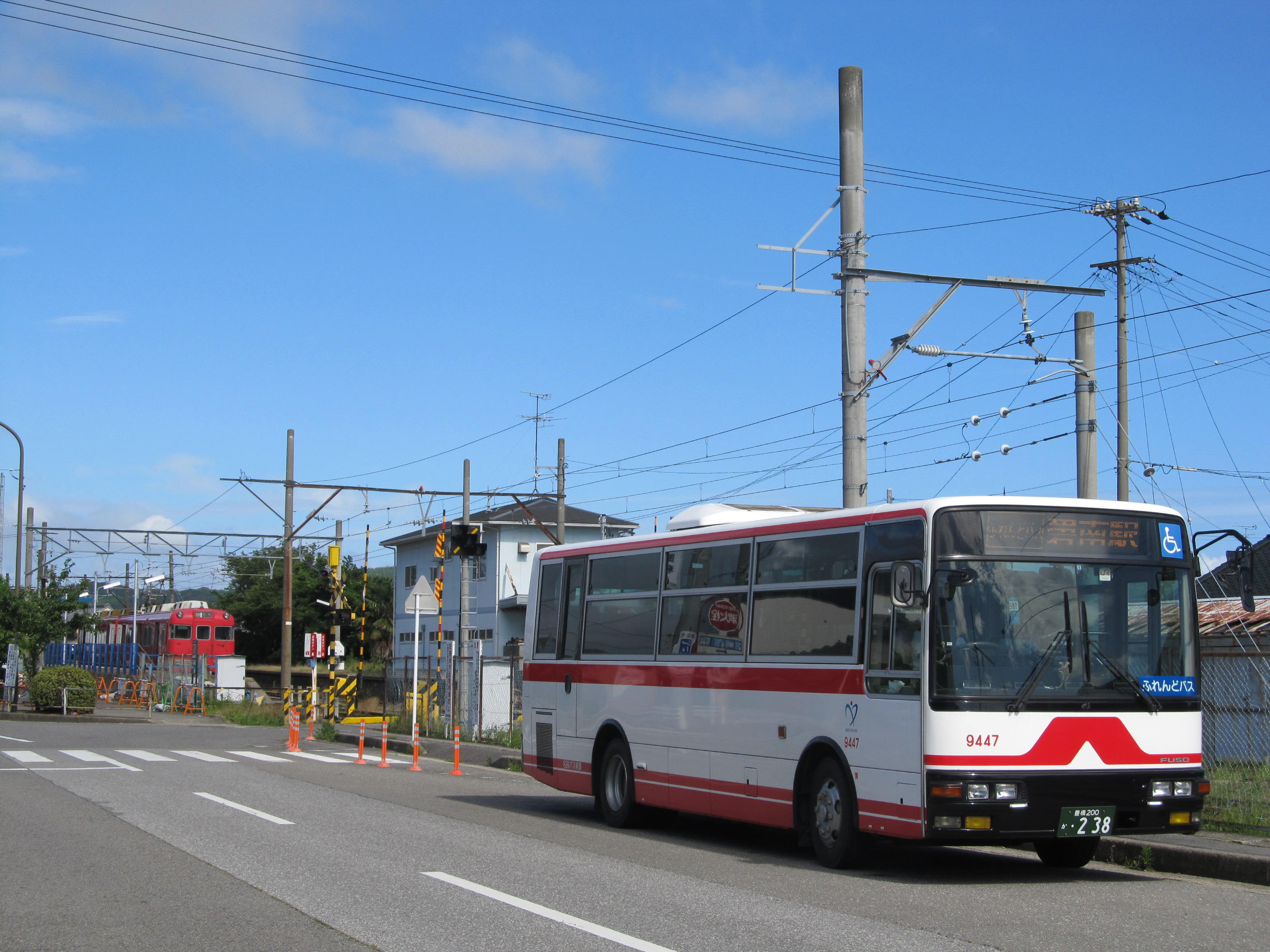 Friend Bus Kira Yoshida Station Bus stop